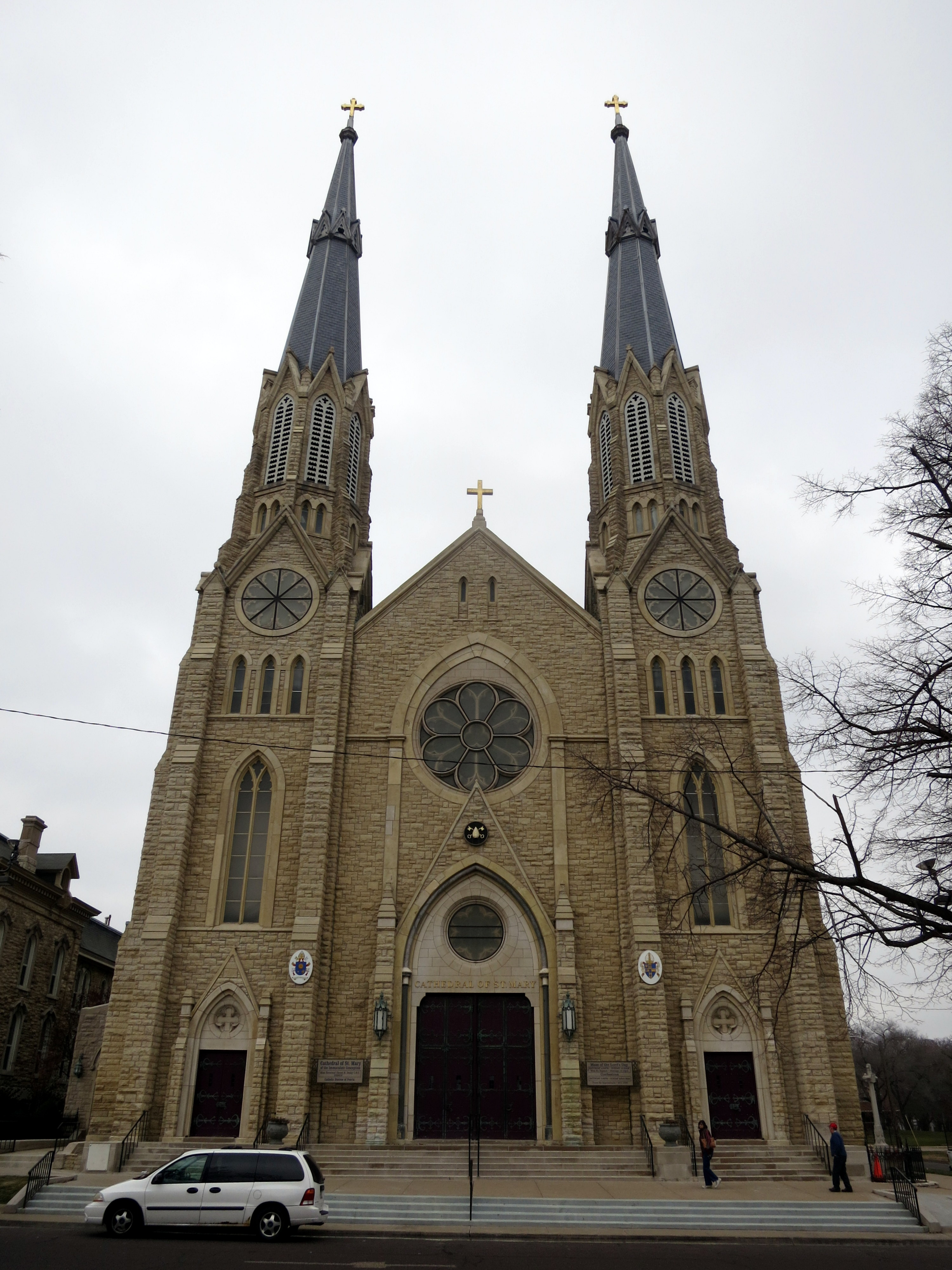 Cathedral of Saint Mary of the Immaculate Conception (Peoria, Illinois) - facade